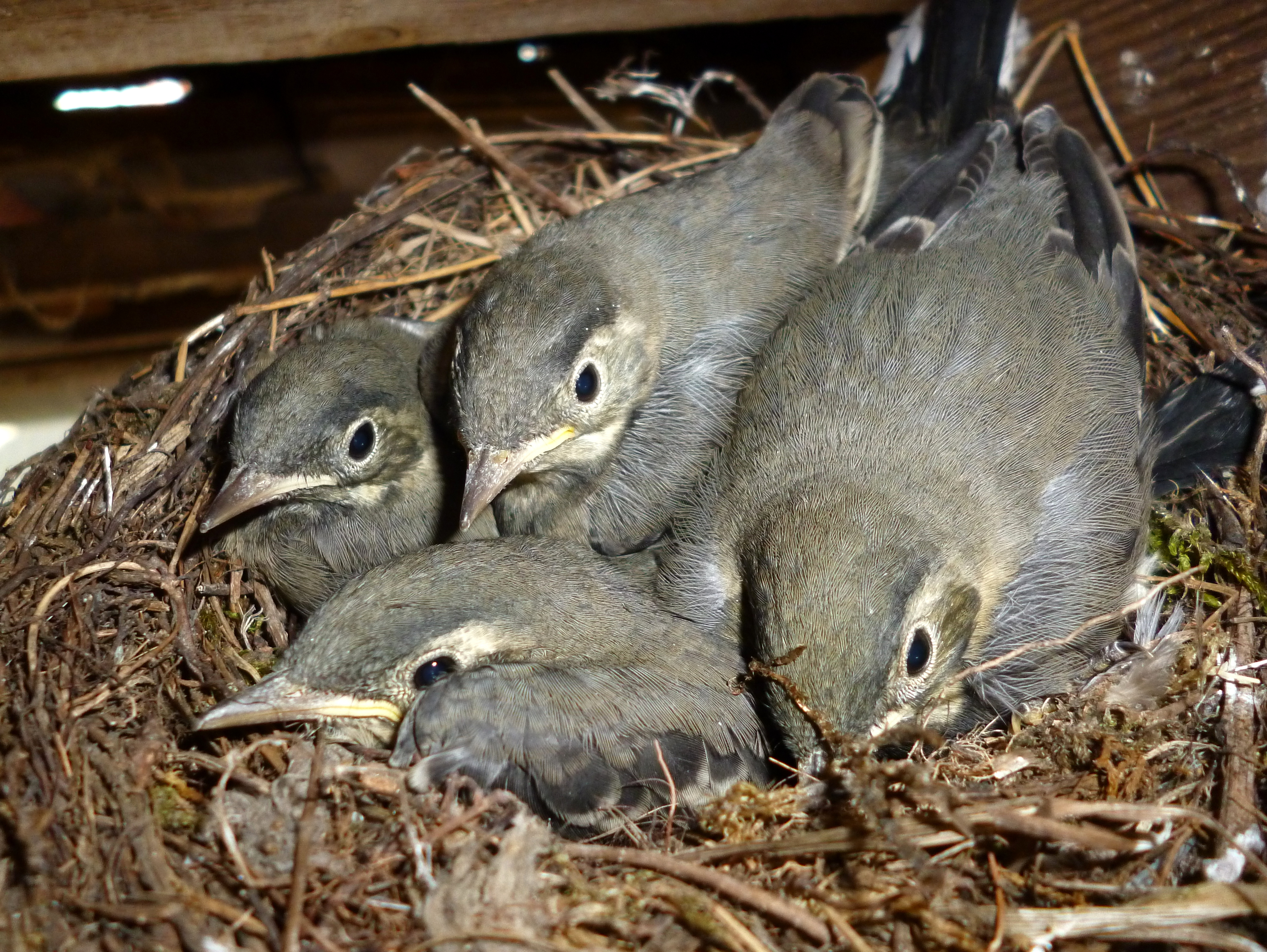 Juveniles of White wagtail (Motacilla alba) just before fledge